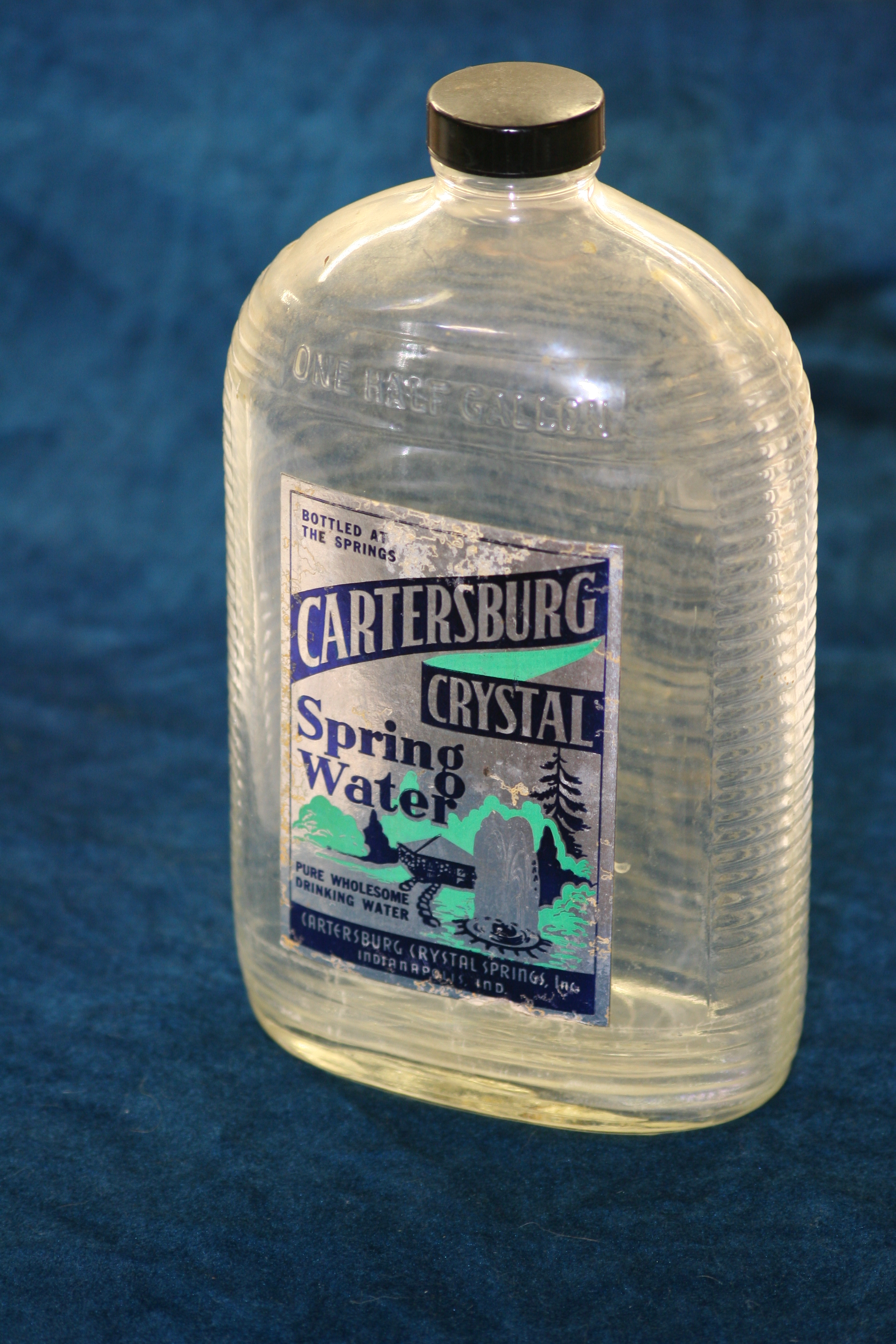 Photograph of original Catersburg-Crystal Springs Half Gallon Glass Water Bottle